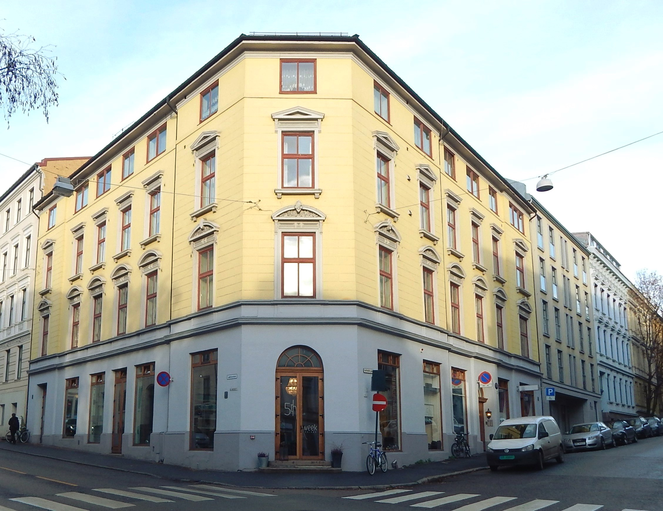 Huitfeldts gate 11, Oslo, Norway, from 1875. Architect August Tidemand.